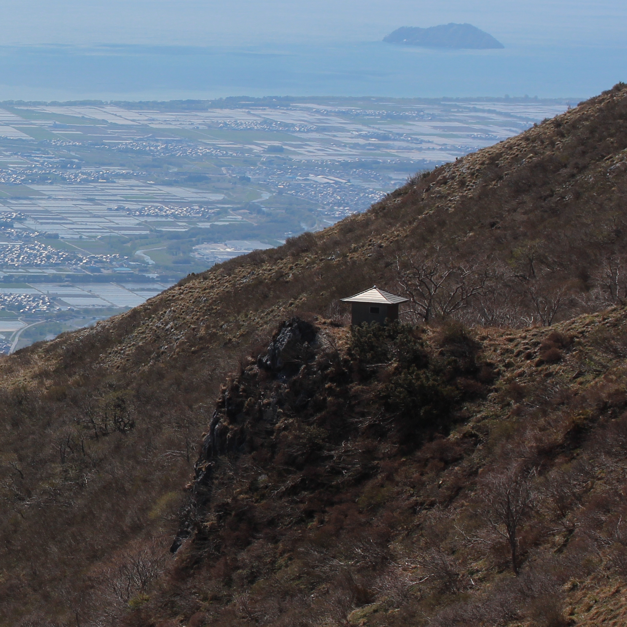 Gyodoiwa on Mount Ibuki, Shiga prefecture, Japan.